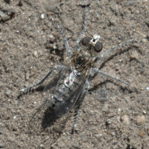 Robber fly of the genus Ablautus, my yard, Española, New Mexico. Same individual as File:Ablautus sp side.jpg. Thanks to Eric Fisher at for identification.